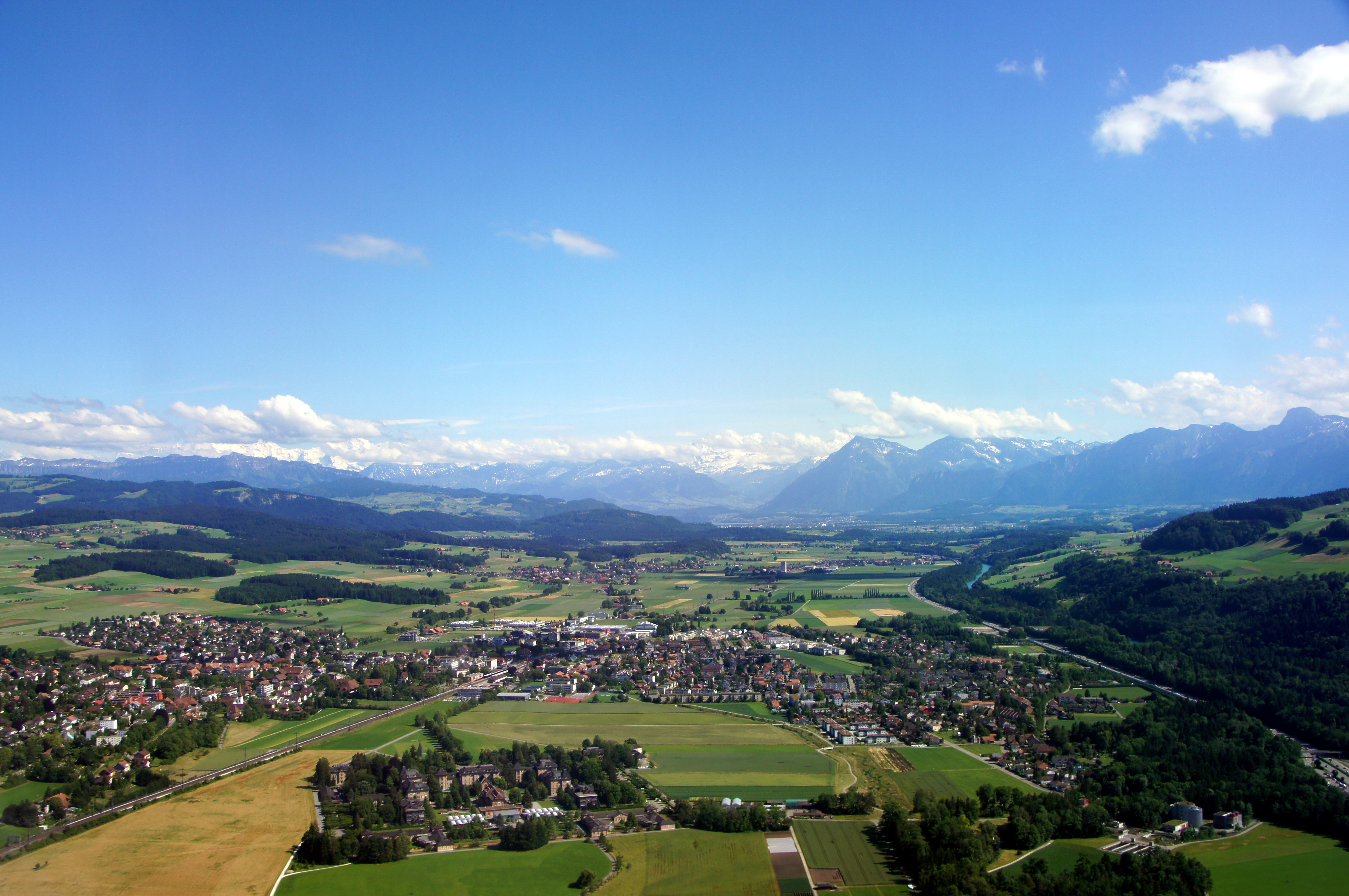 Birdview of Münsingen in the canton of Bern